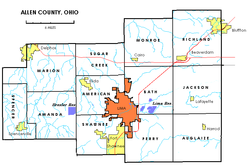 self-created based on U.S. Government Census Maps and Date. 6/20/2006